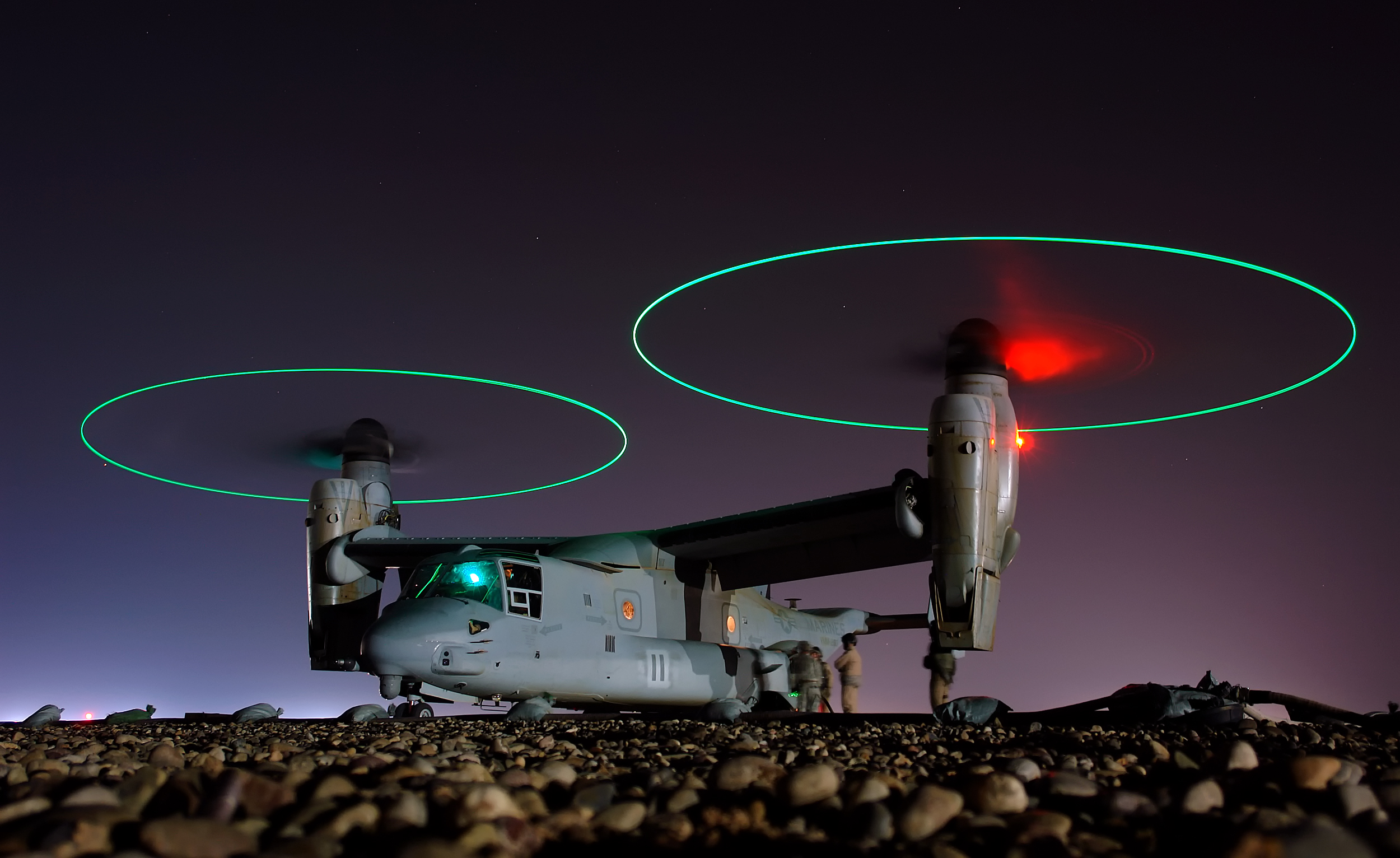 Crew members refuel an A V-22 Osprey before a night mission in central Iraq, Feb. 2, 2008.